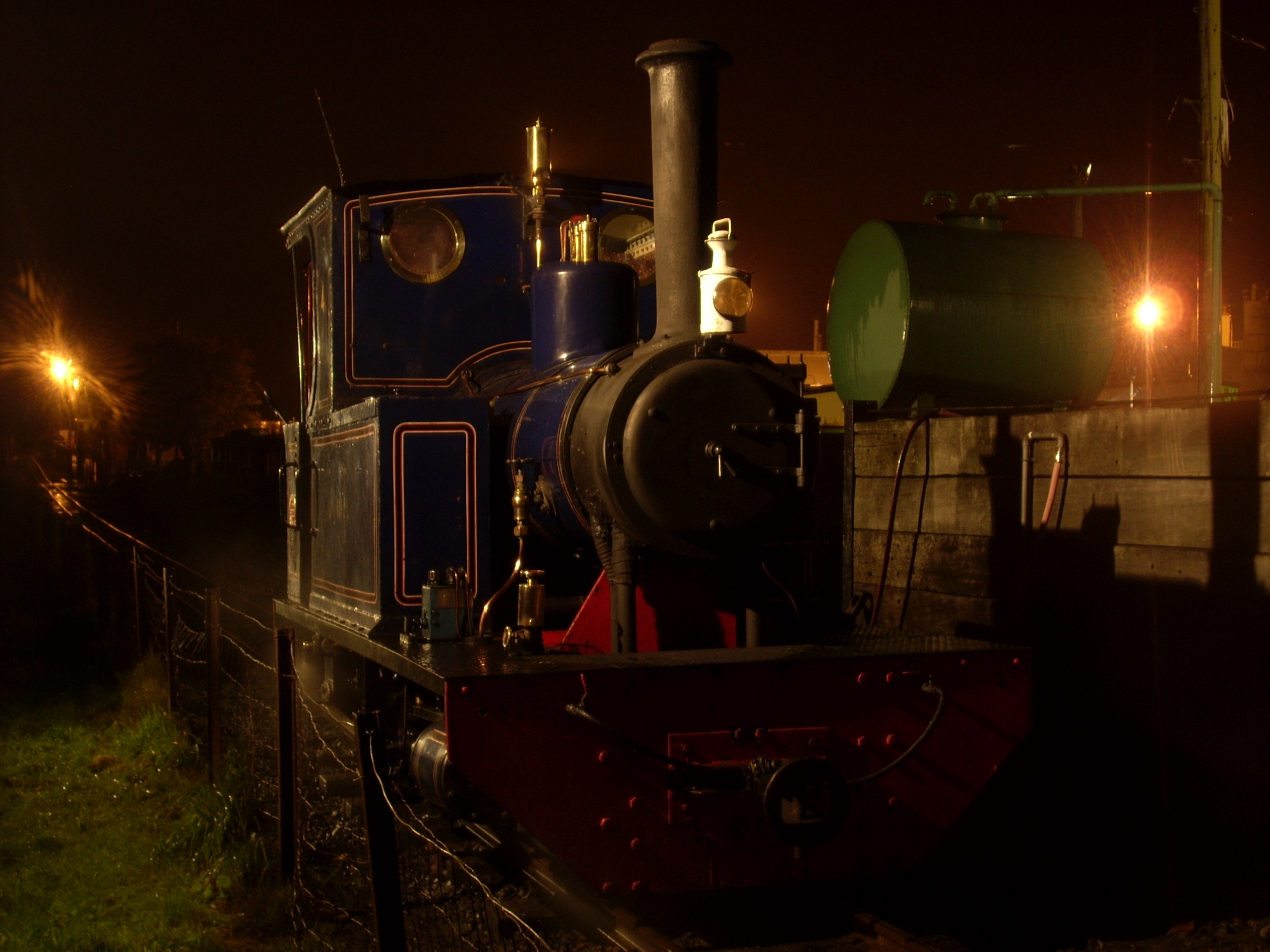 Doll at steam glow 08